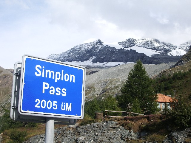 Simplonpass in Switzerland Photo by user:londenp somewhere during sommer 2005